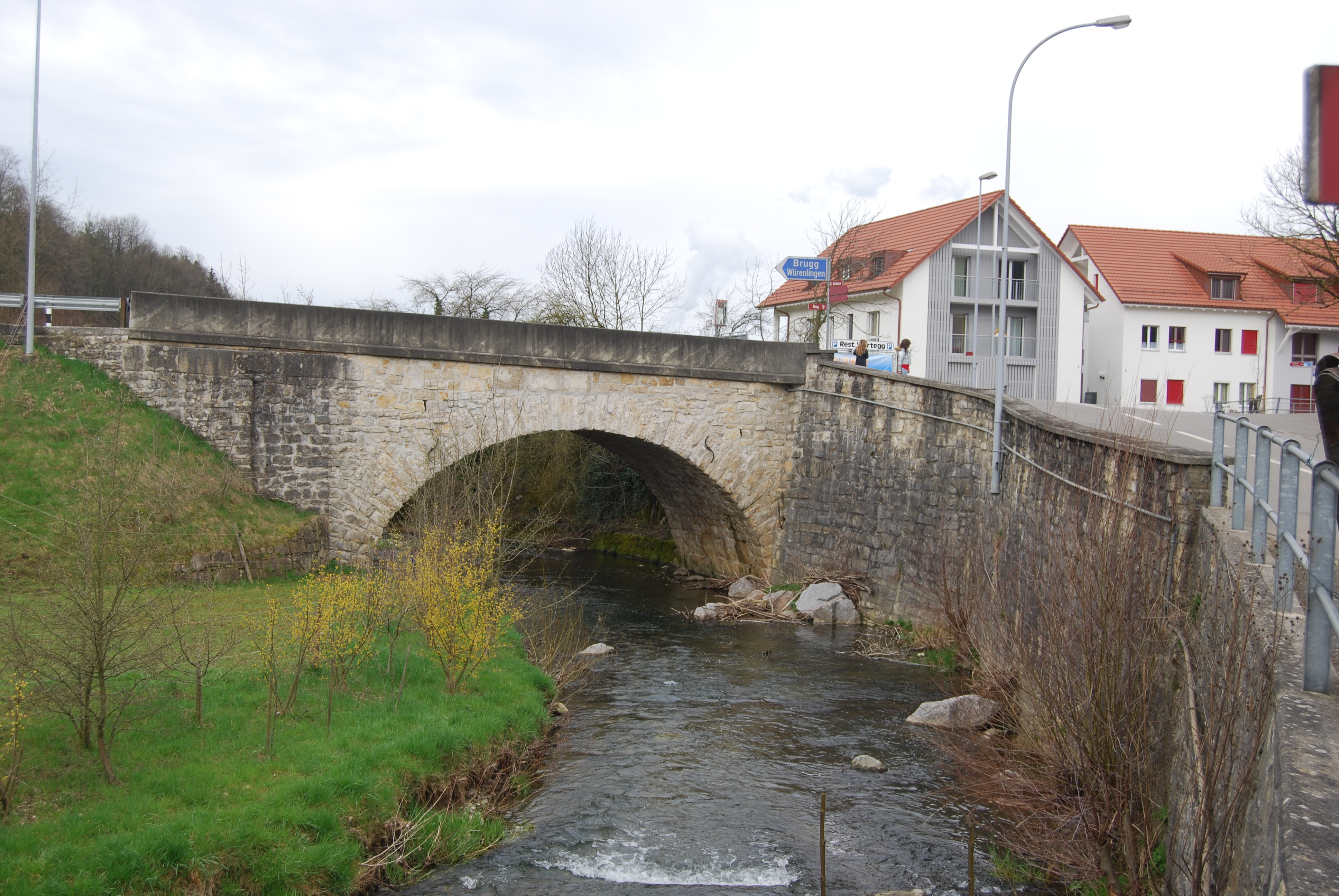 River Surb in Tegerfelden, canton of Aargau, SwitzerlandEsperanto: Rivero Surbo en Tegerfelden, Kantono Argovio, Svislando